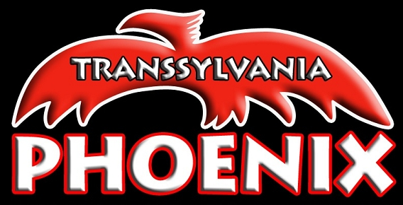 The official logo of the legendary rock band (Transsylvania) Phoenix from Romania. The logo was created by Nicolae Covaci, the leader of the band.